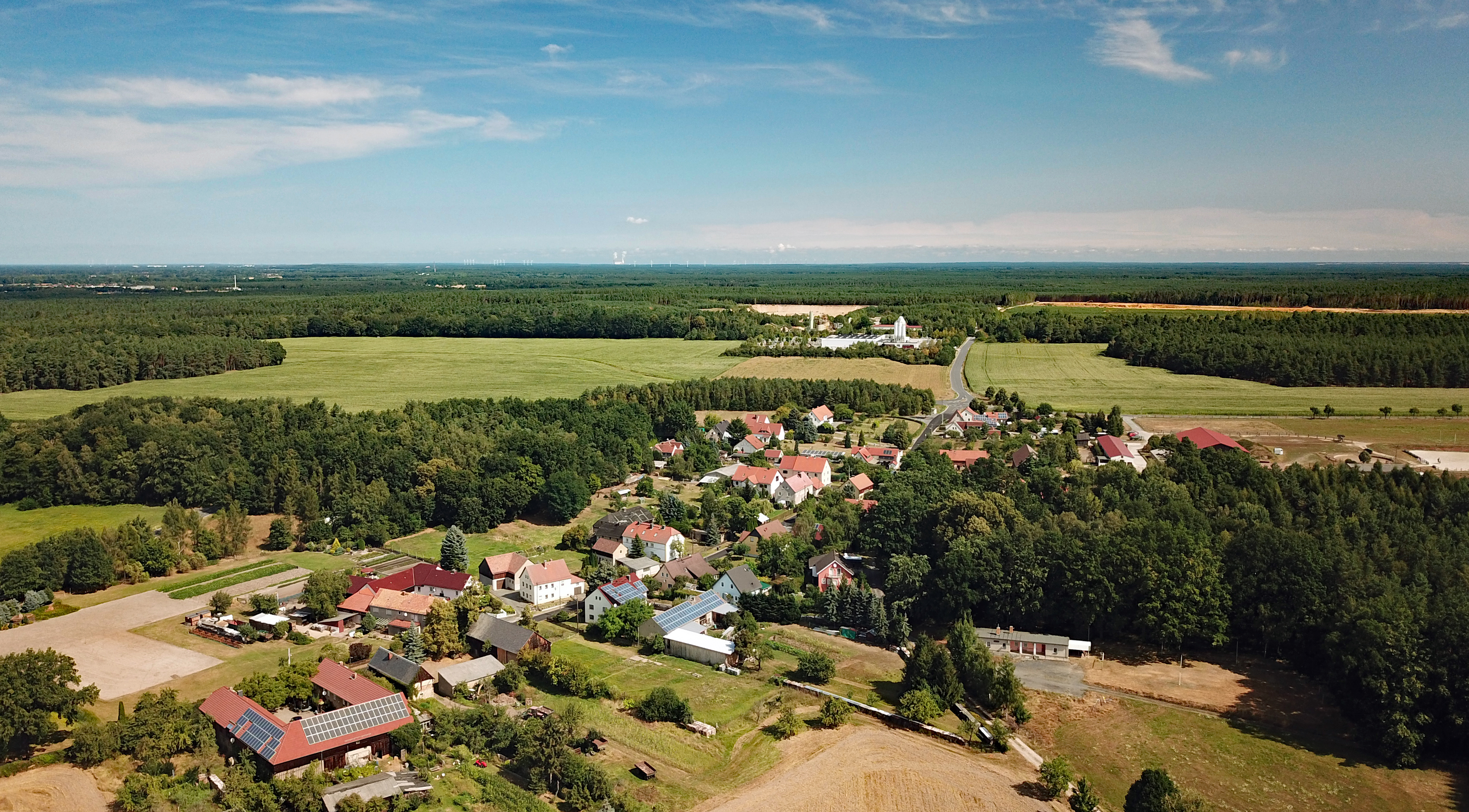 Holschdubrau (Neschwitz, Saxony, Germany) Hornjoserbsce: Powětrowy wobraz Holešowskeje Dubrawki